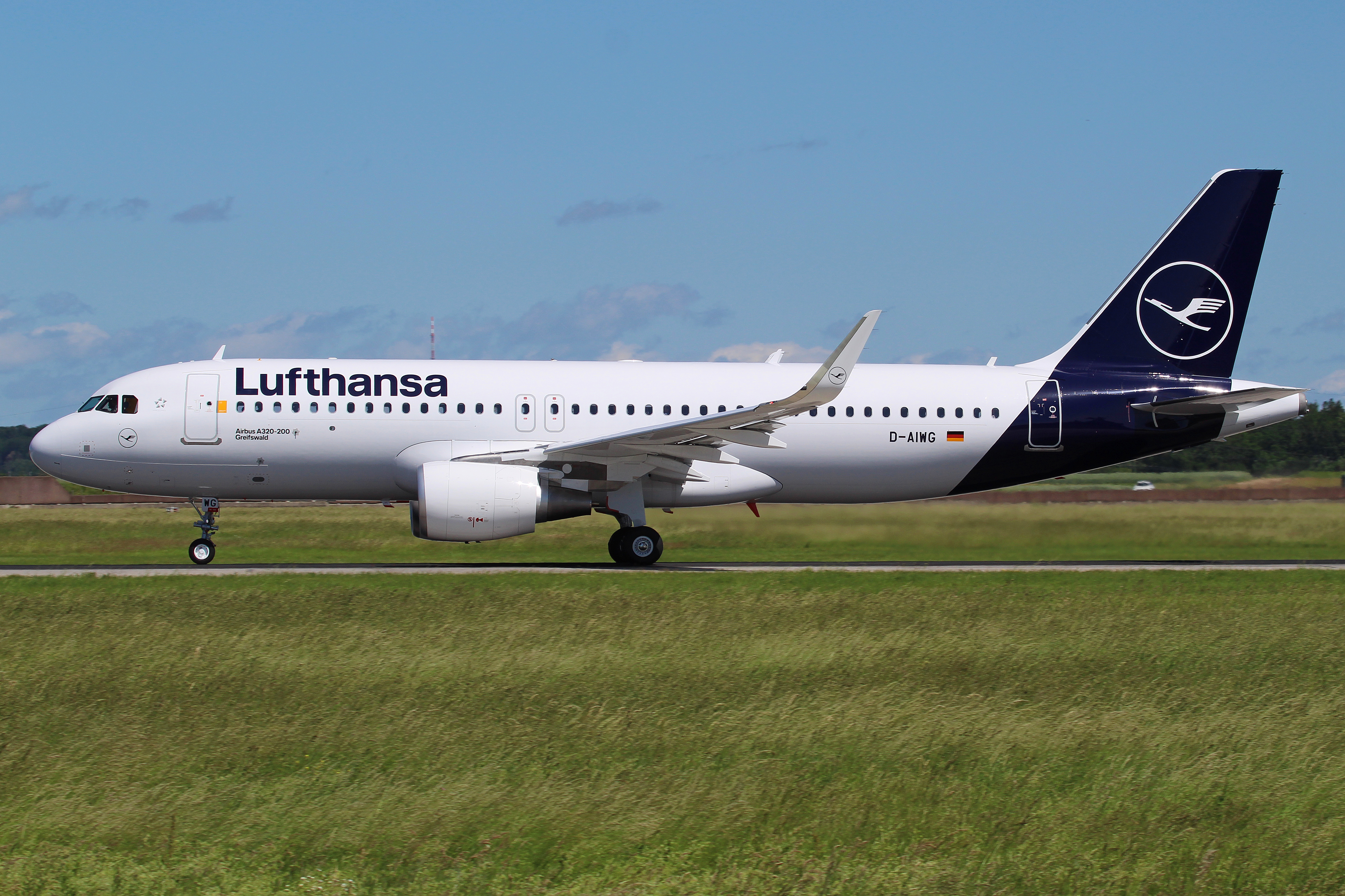 Lufthansa Airbus A320 at Stuttgart Airport.